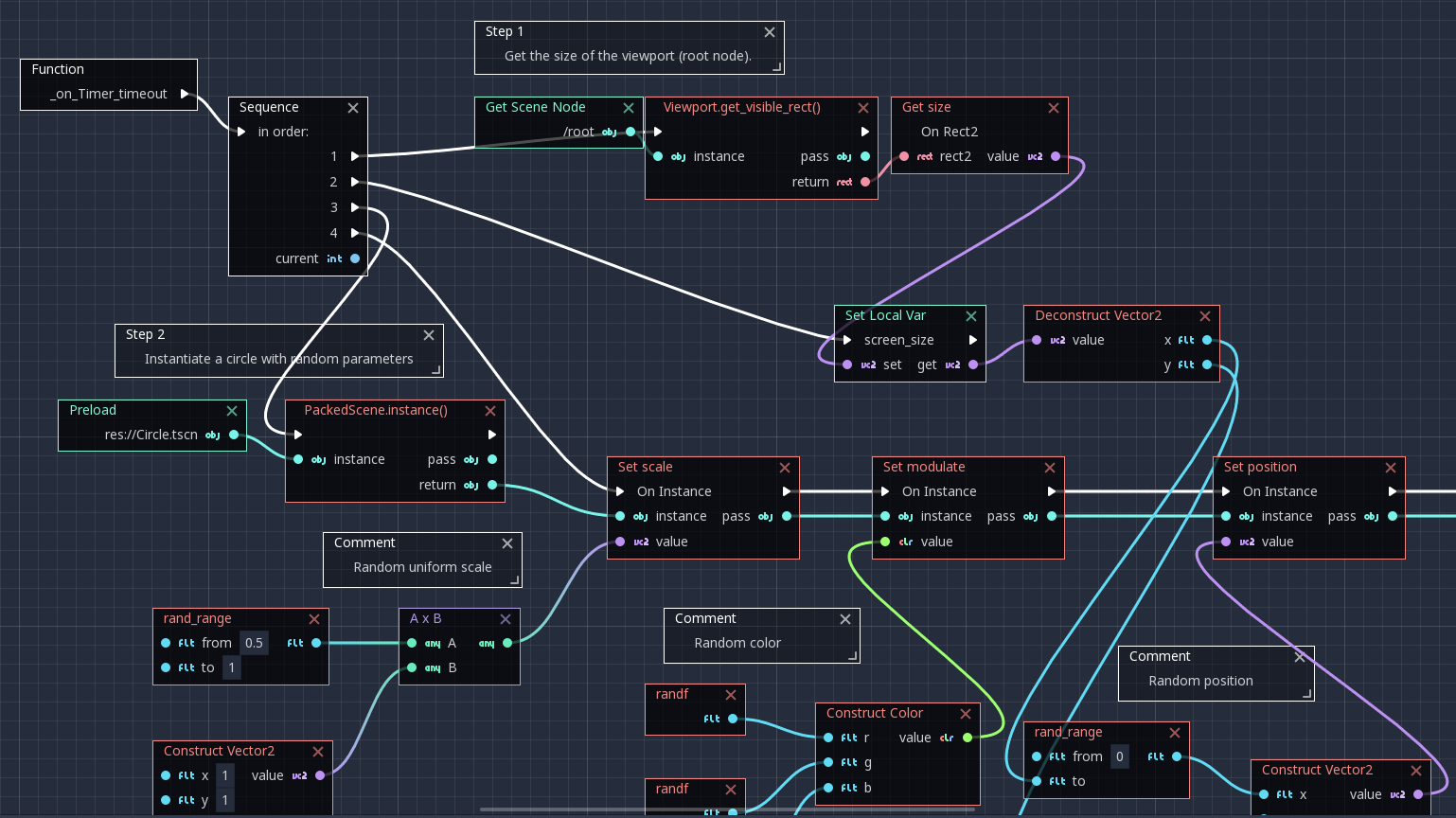 Screenshot of a VisualScript function created with the Godot game engine.